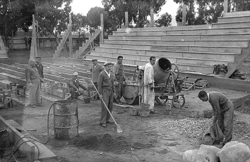 Construction of Rosario Puerto Belgrano's Stadium 1928